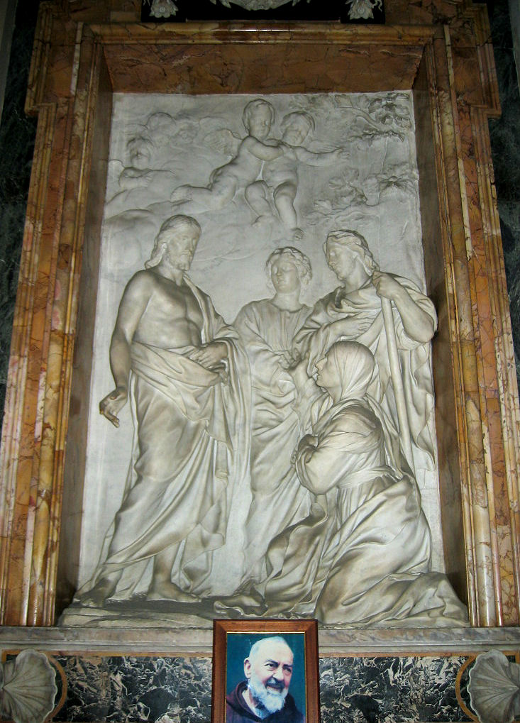 Cosimo Fancelli - Jesus with Mary Salome and apostles James and John (1645). Santa Maria in Porta Paradisi, Rome. Picture by Torvindus.